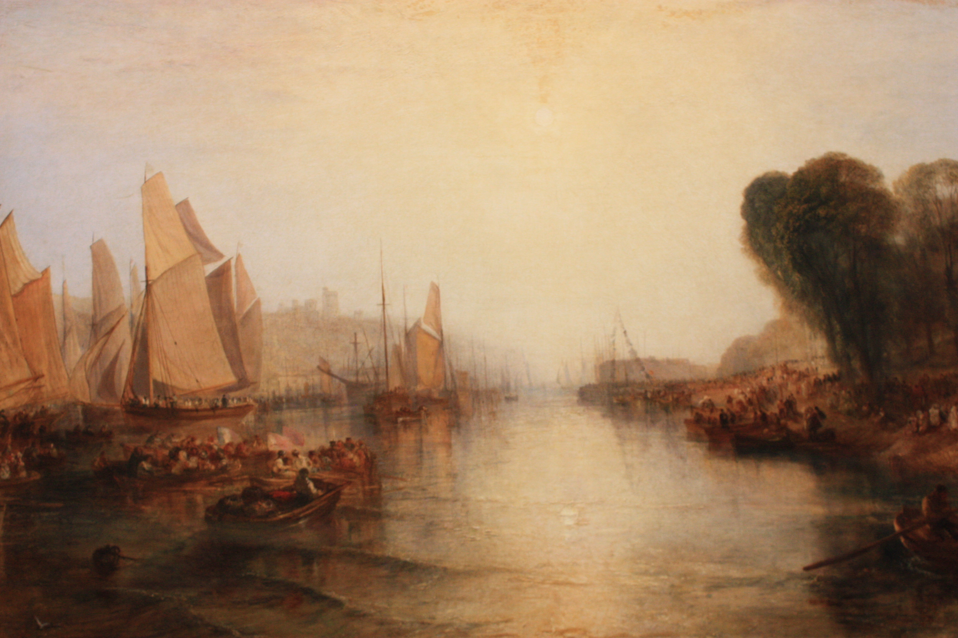 East Cowes Castle, the Seat of John Nash, Esq.; the Regatta Starting for their Moorings